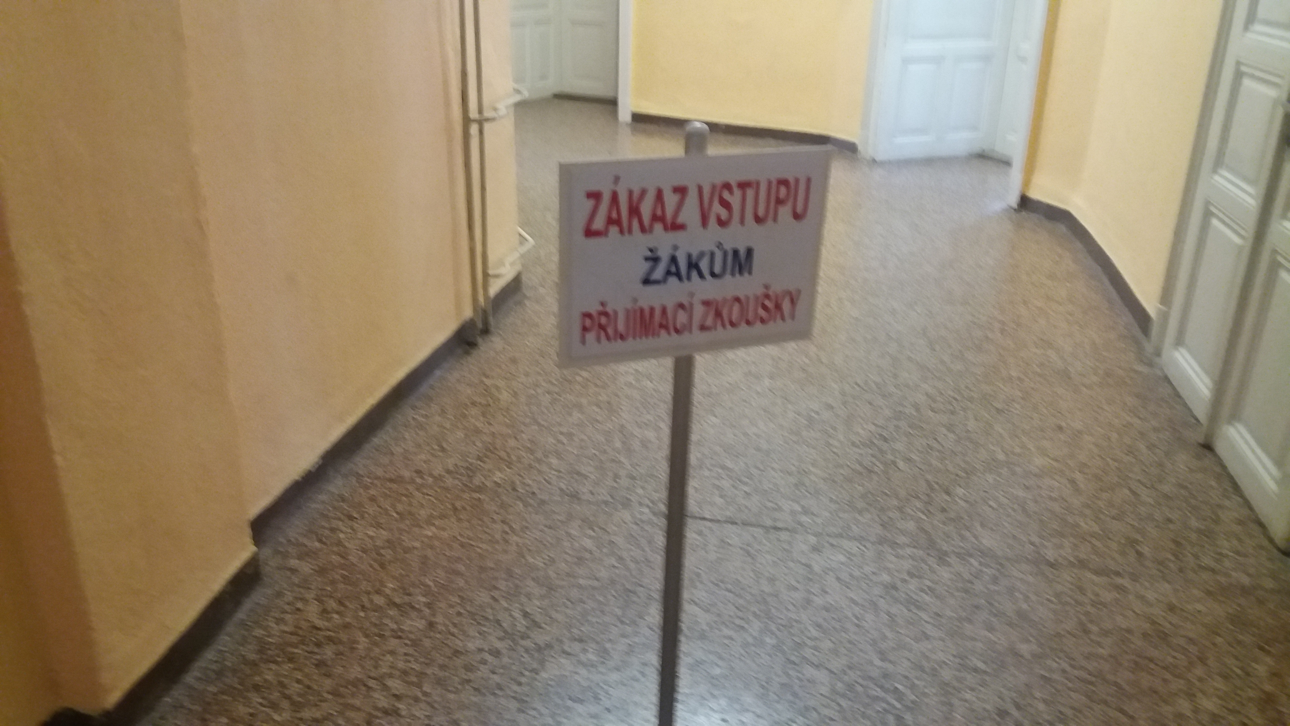 The warning sign, Gymnázium Dr. Karla Polesného